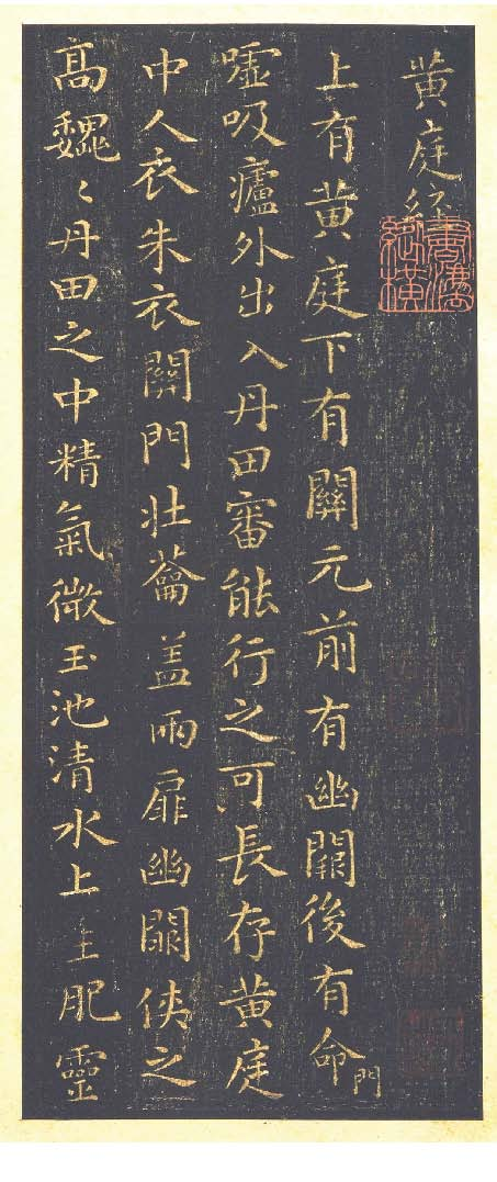 There exists a Daoist passage 黃庭經, whose author is unknown. Wang Xizhi created a manuscript of it in 356 AD. This image is of part of a Song dynasty stone rubbing of that manuscript.